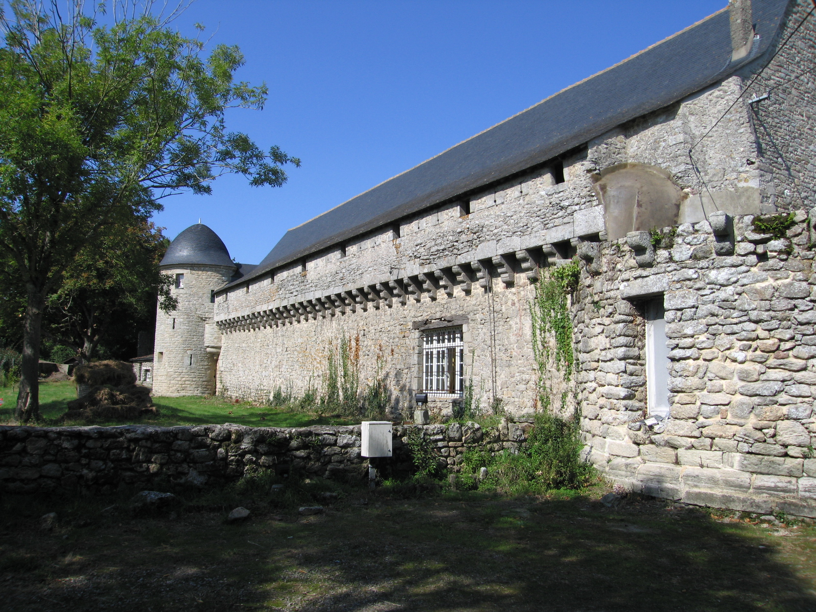 Defensive side of the Castle of Careil, Guérande, France